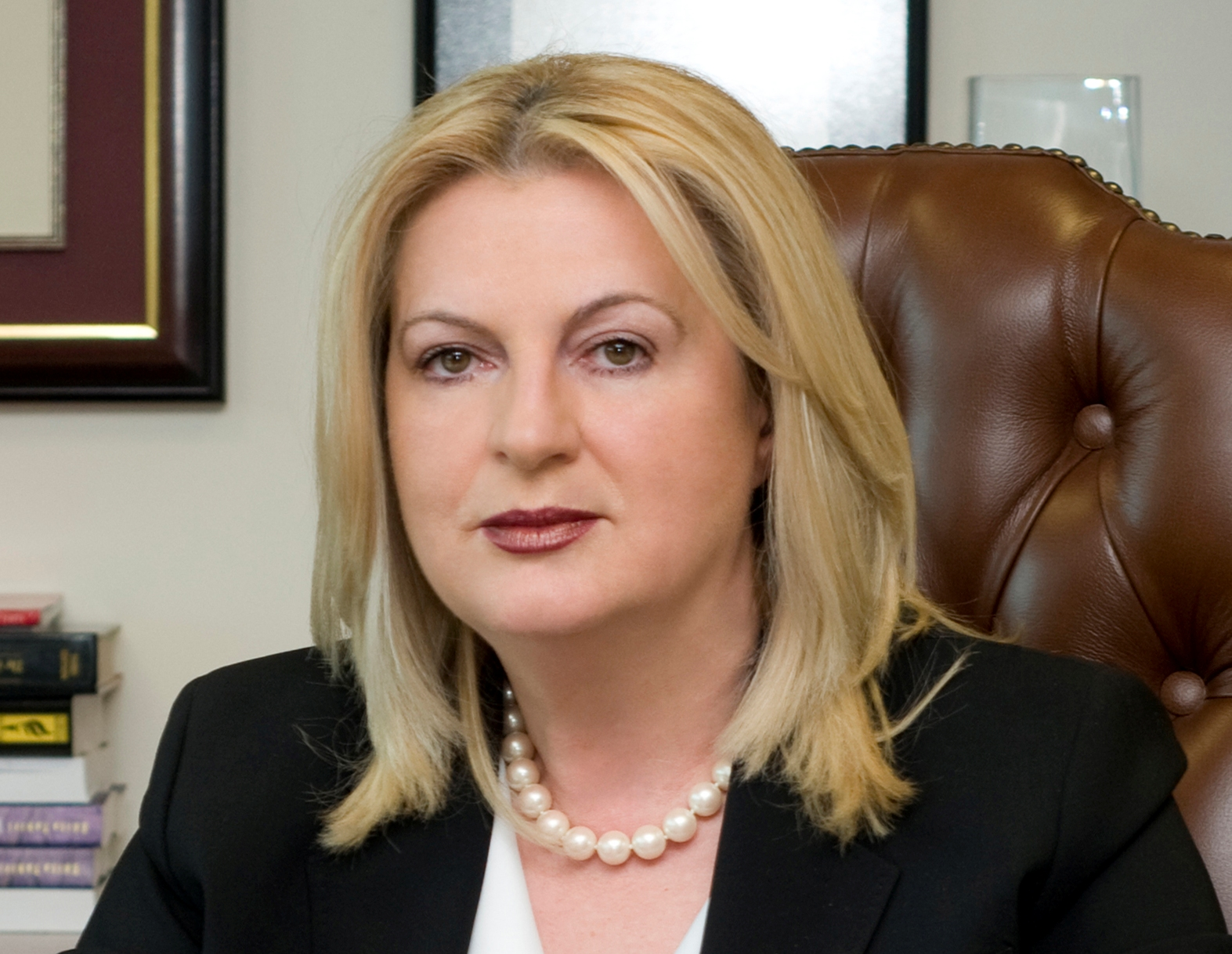 photo